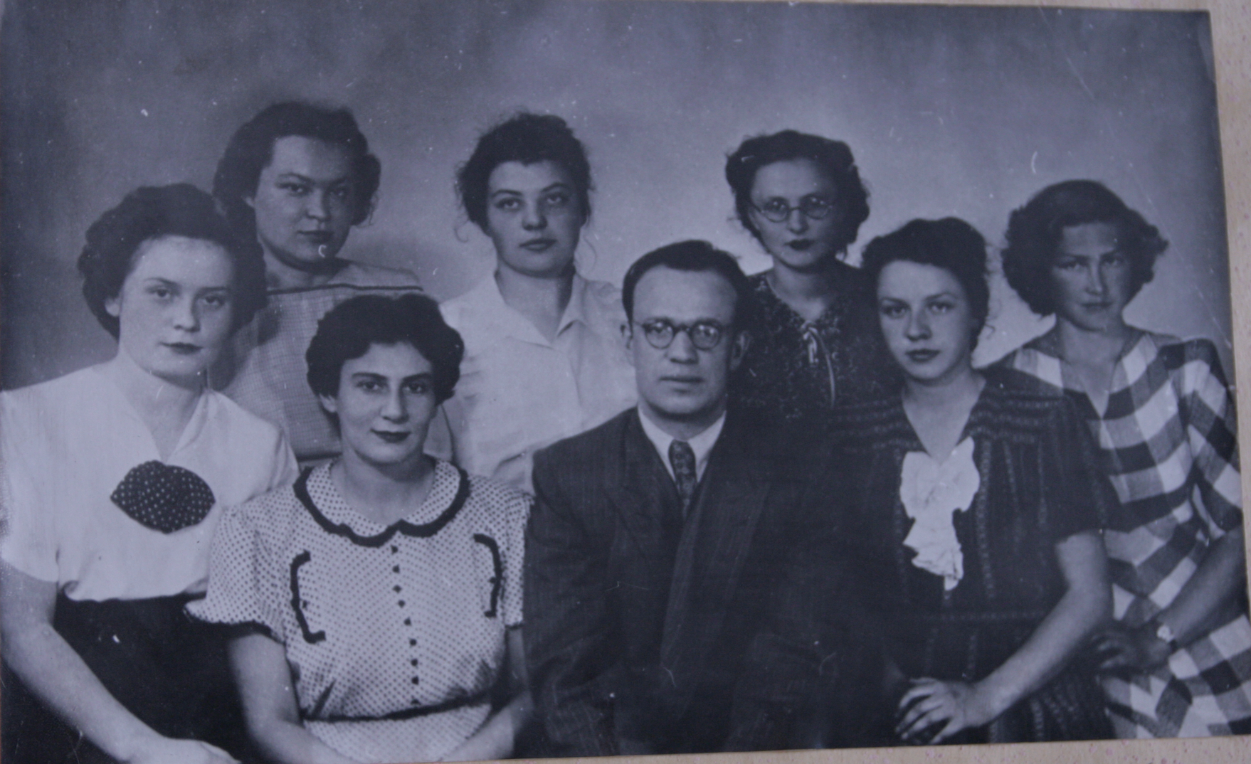 This is a group photo of two teachers and six of their students, taken in the Ural State Conservatory.